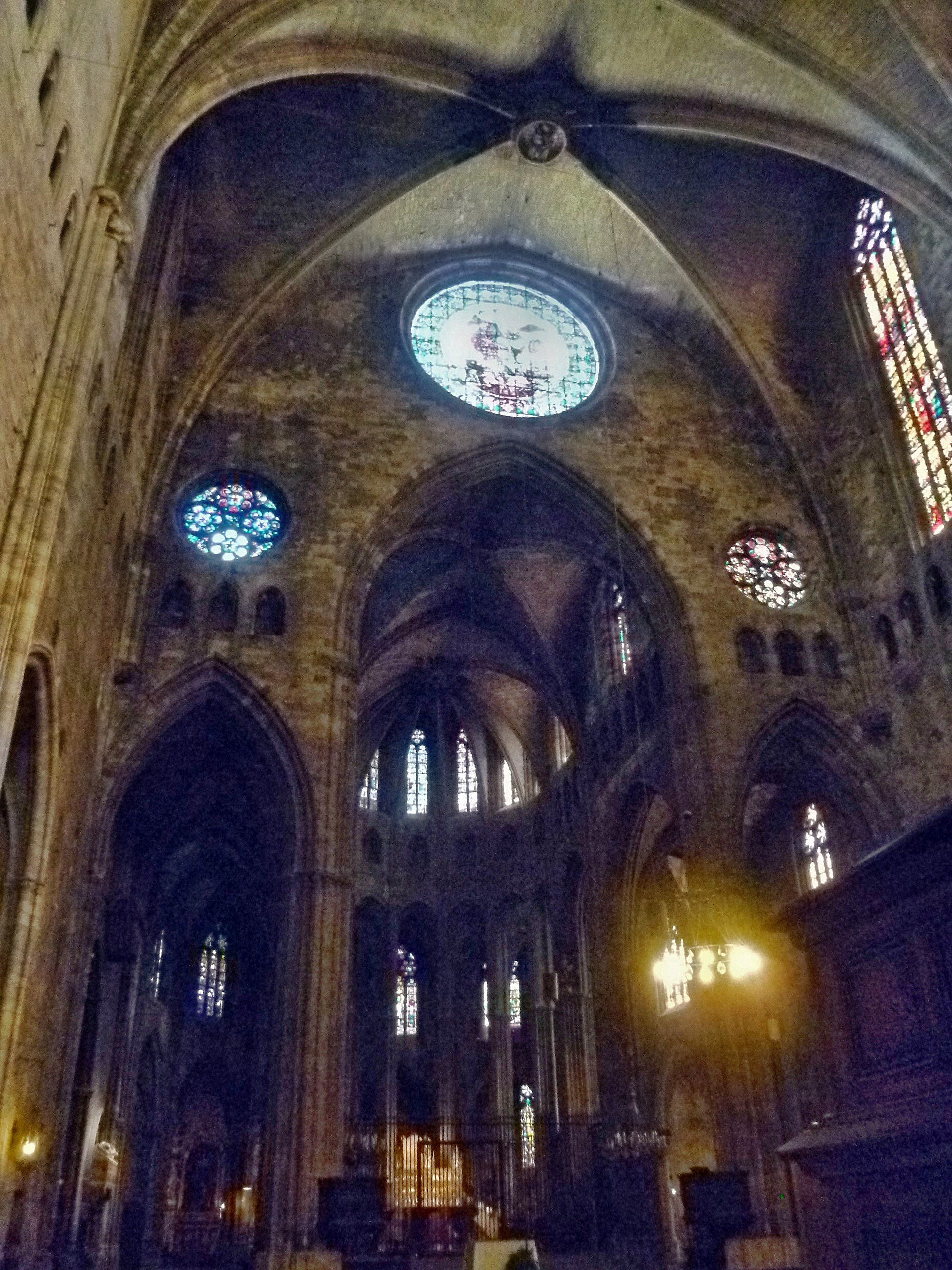 Interior of the cathedral of Girona, Spain